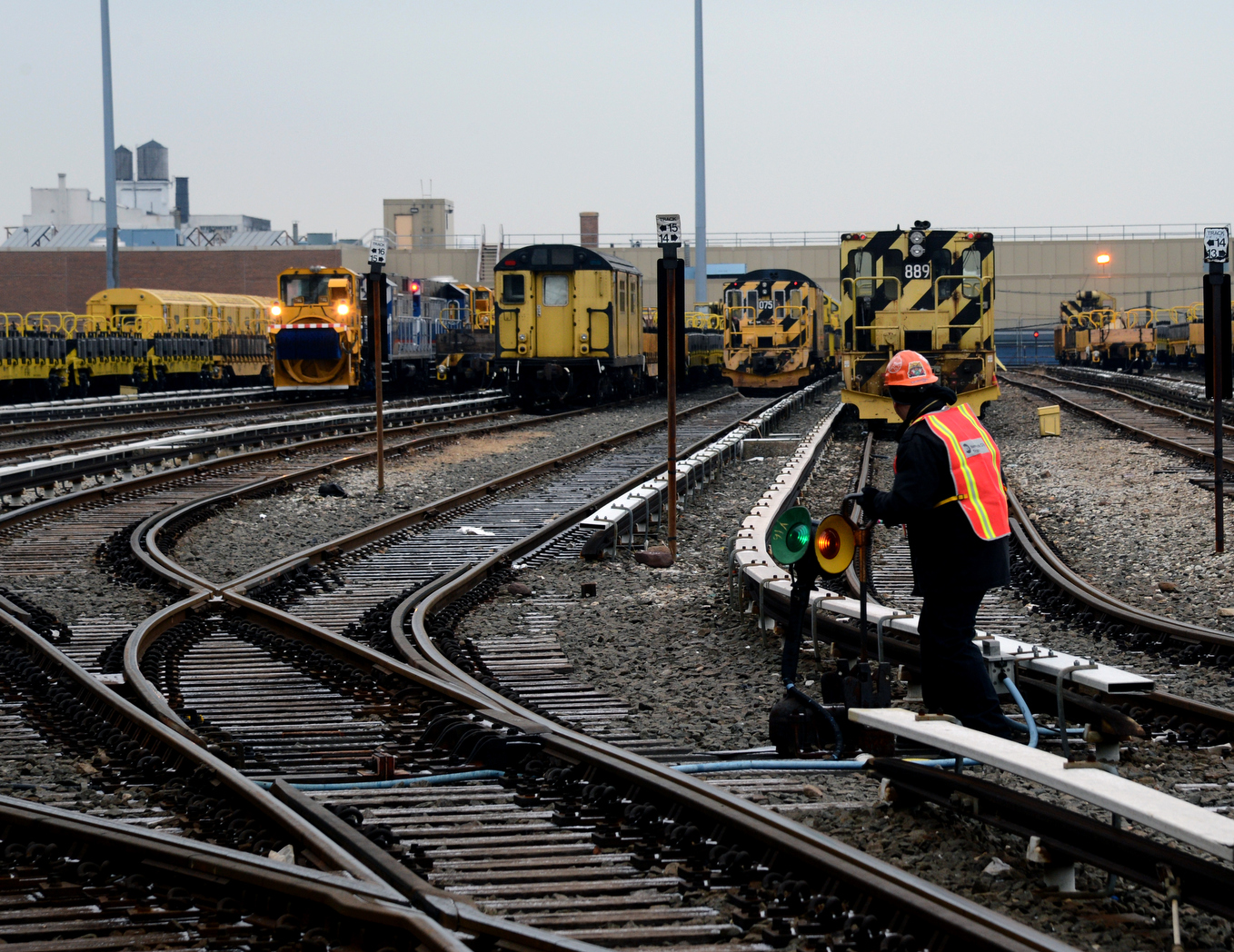 MTA New York City Transit readies work equipment at the 38th Street Yard in Brooklyn in advance of a snow storm on Thu., January 2, 2014. The yard's switches are manually operated. Photo: Marc A. Hermann / MTA New York City Transit Here is video of the equipment getting prepped.